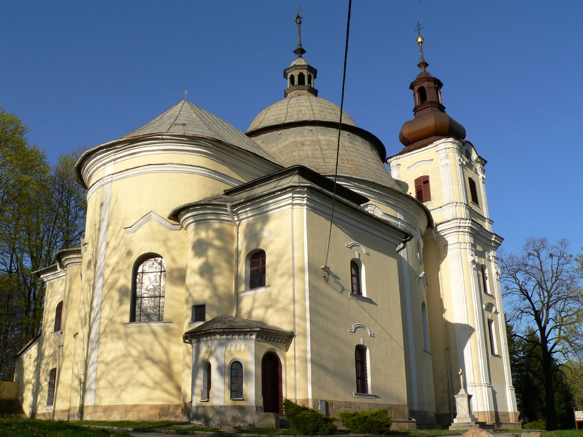 Description: Divine Providence Catholic Church in Šenov, Czech Republic. Date: 14 April 2007 Camera: Panasonic DMC-FZ20 Author: Czesil (my friend)